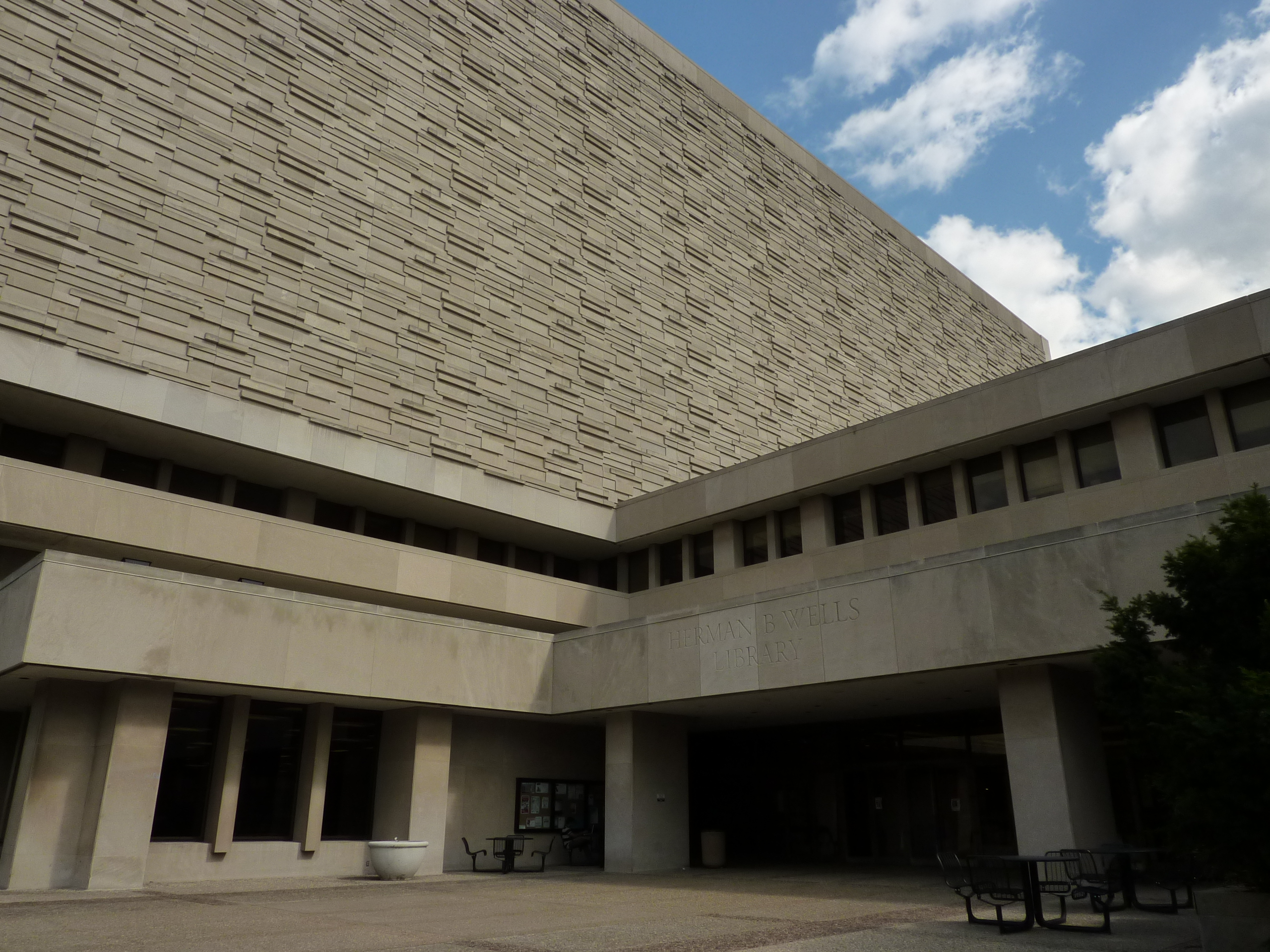 Herman B Wells Library, the main library of Indiana University Bloomington. Northern entrance. Part of the East Tower is seen on the left.